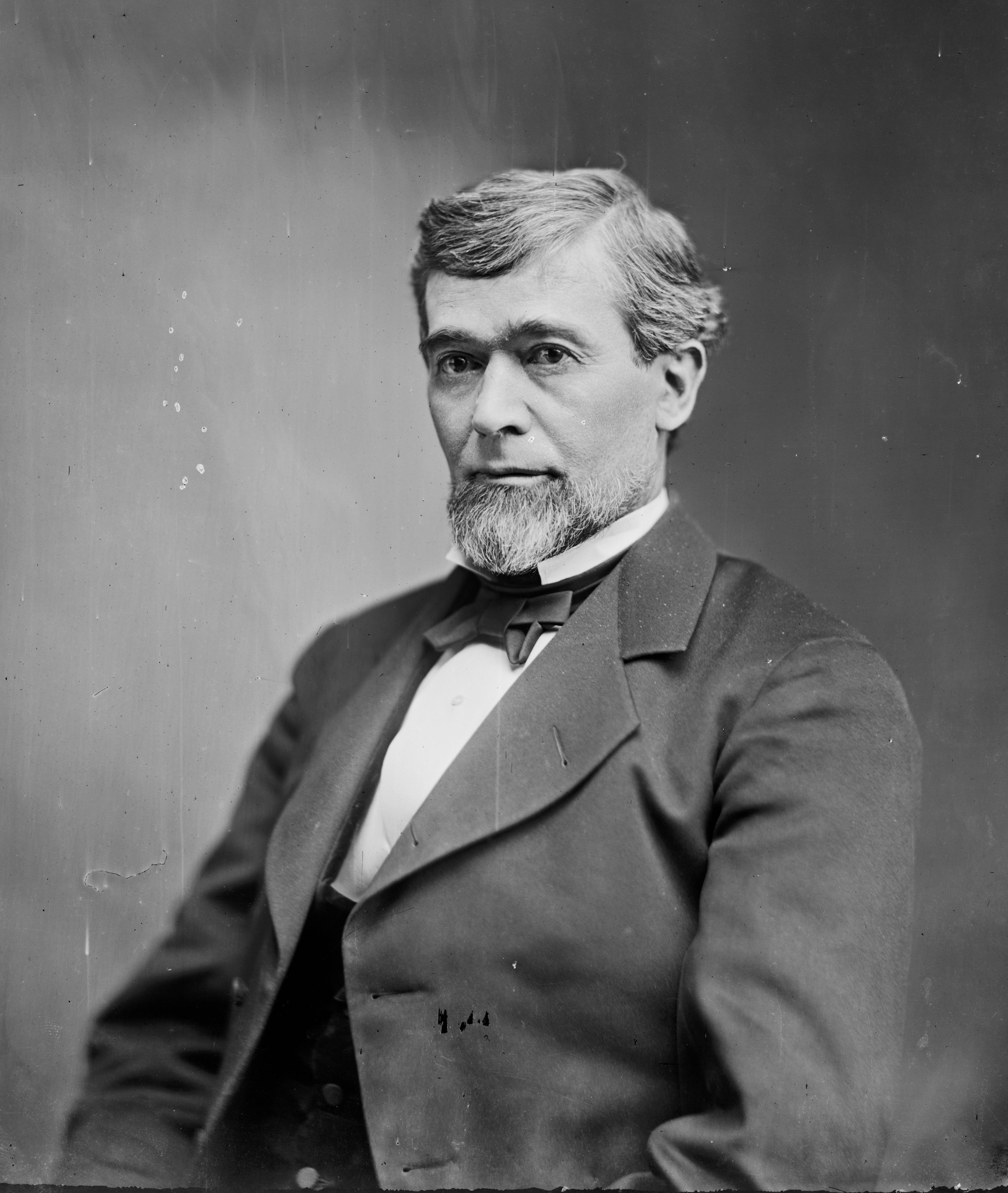 James E. Bailey. Library of Congress description: "Bailey, Hon. James Edmund of Tenn. (Col. 49th Tenn. Inf. C.S.A.)"